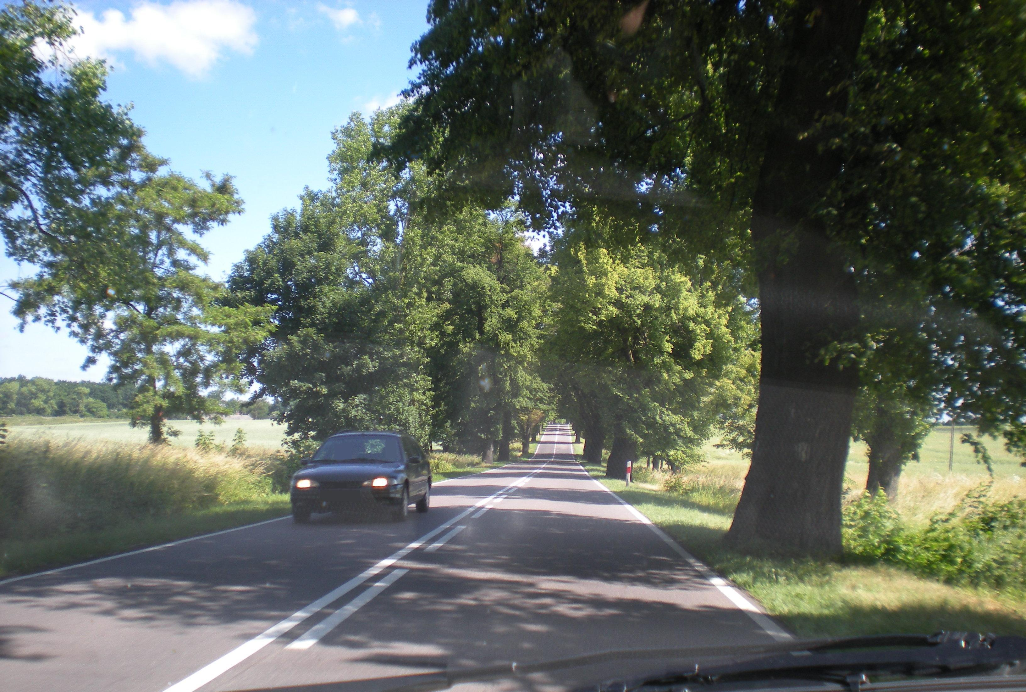 National road DK55 (Poland)